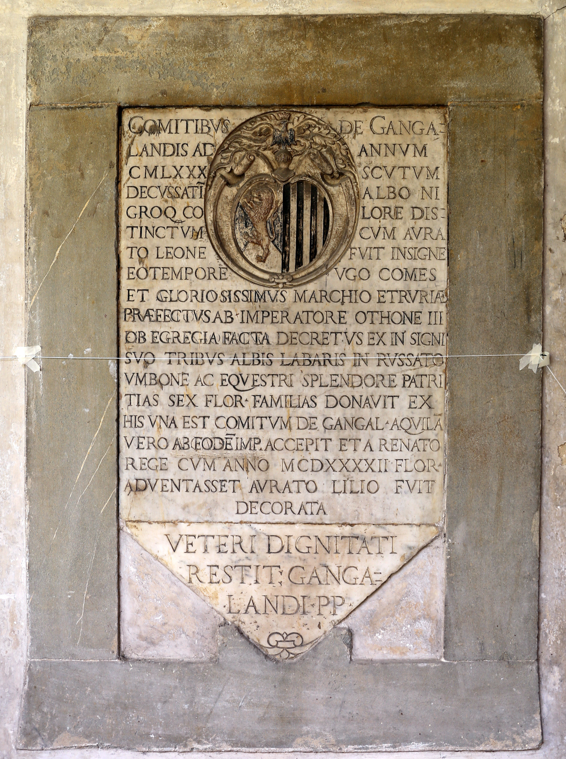 Chiostro degli aranci